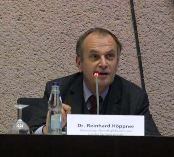 Reinhard Höppner, Minister-President of Saxony-Anhalt (1994-2002) Image taken on a commemorative event because of the 25th anniversary of the Volkszählungsurteil (see Informational self-determination)